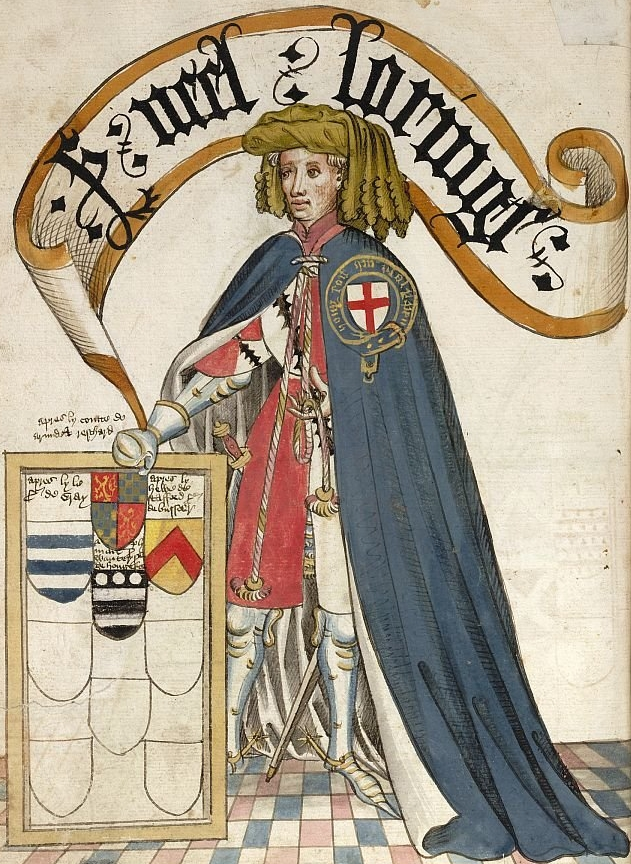 "Sr Neel Loringe": Sir Neil Loring, KG, shown wearing his garter robes over his tunic showing the arms: Quarterly argent and gules, a bendlet engrailed sable. He is supporting a panel with the heraldic shields of the next four successors in his Garter stall at St George's Chapel, Windsor: (Left) Barry of six argent and sable; (Top) Quarterly, 1 & 4: Gules a lion rampant or (for England), 2 & 3: chequey vert and azure; (Right) Or a chevron gules; (Bottom) Barry of four argent and sable on a chief sable three bezants argent. Illustration from the Bruges Garter Book, made by William Bruges (1375–1450), first Garter King of Arms; BL Stowe 594